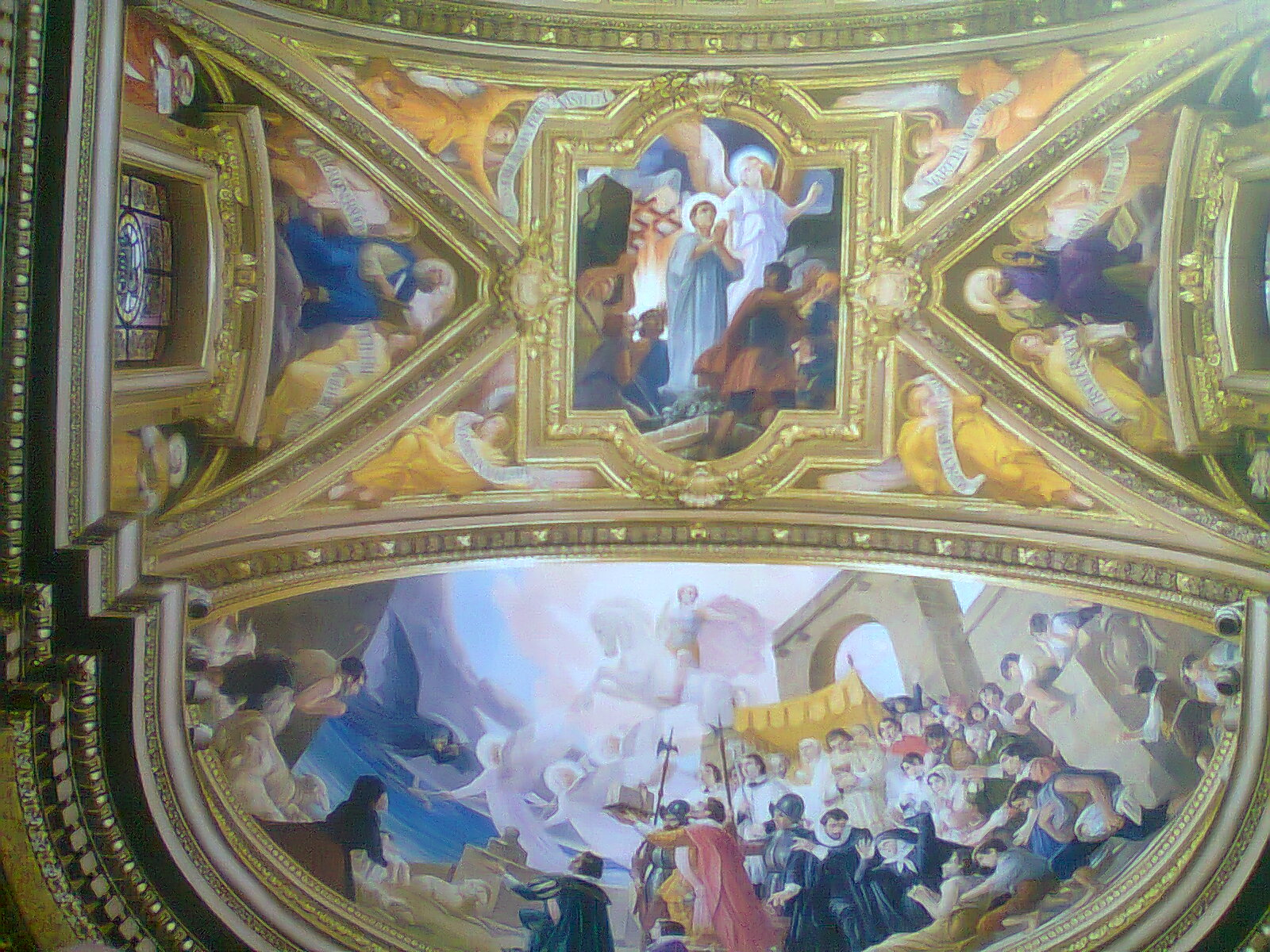 Ceiling of St. George's Basilica, Malta